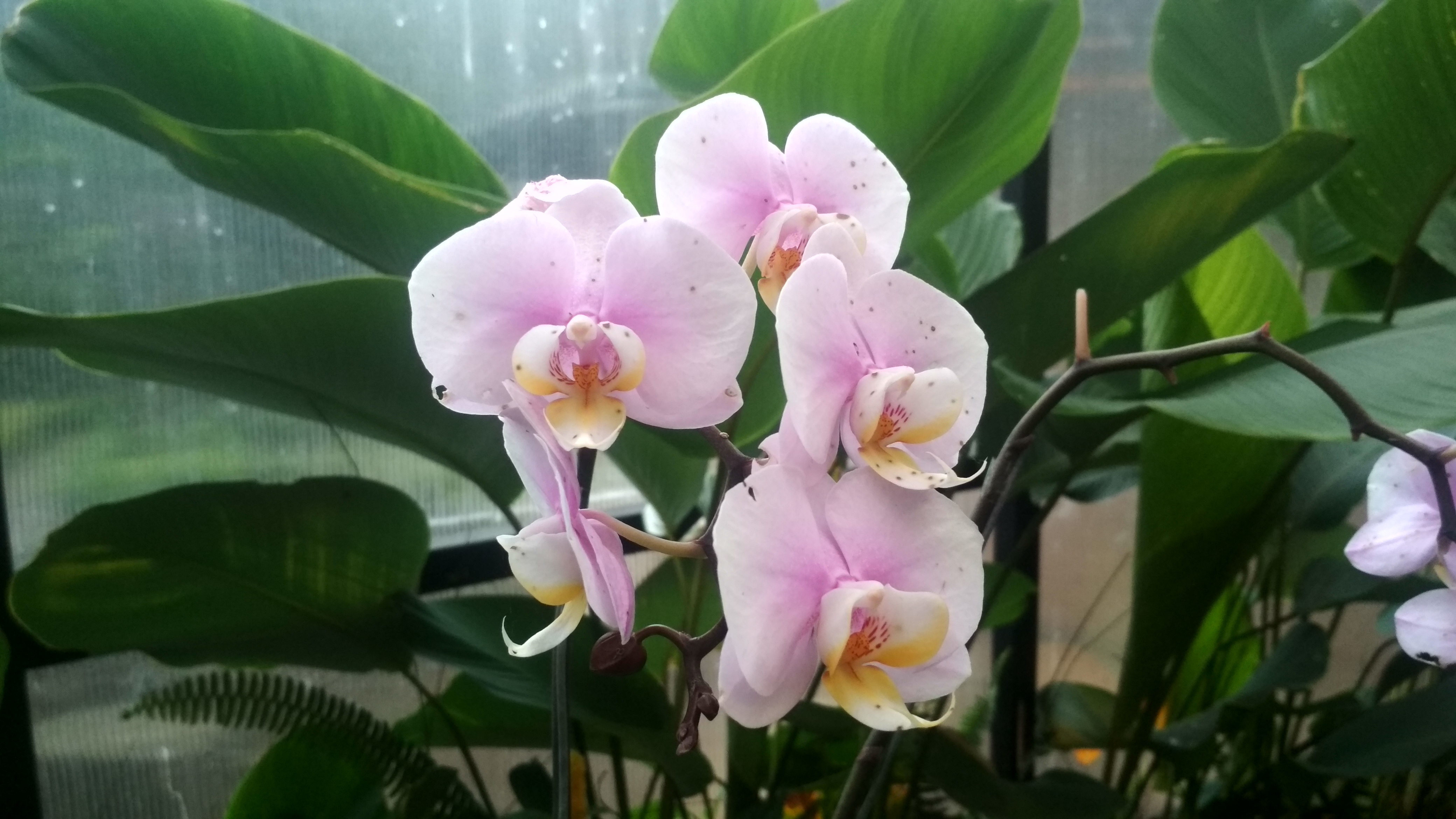 orchidaceae phalenopsis